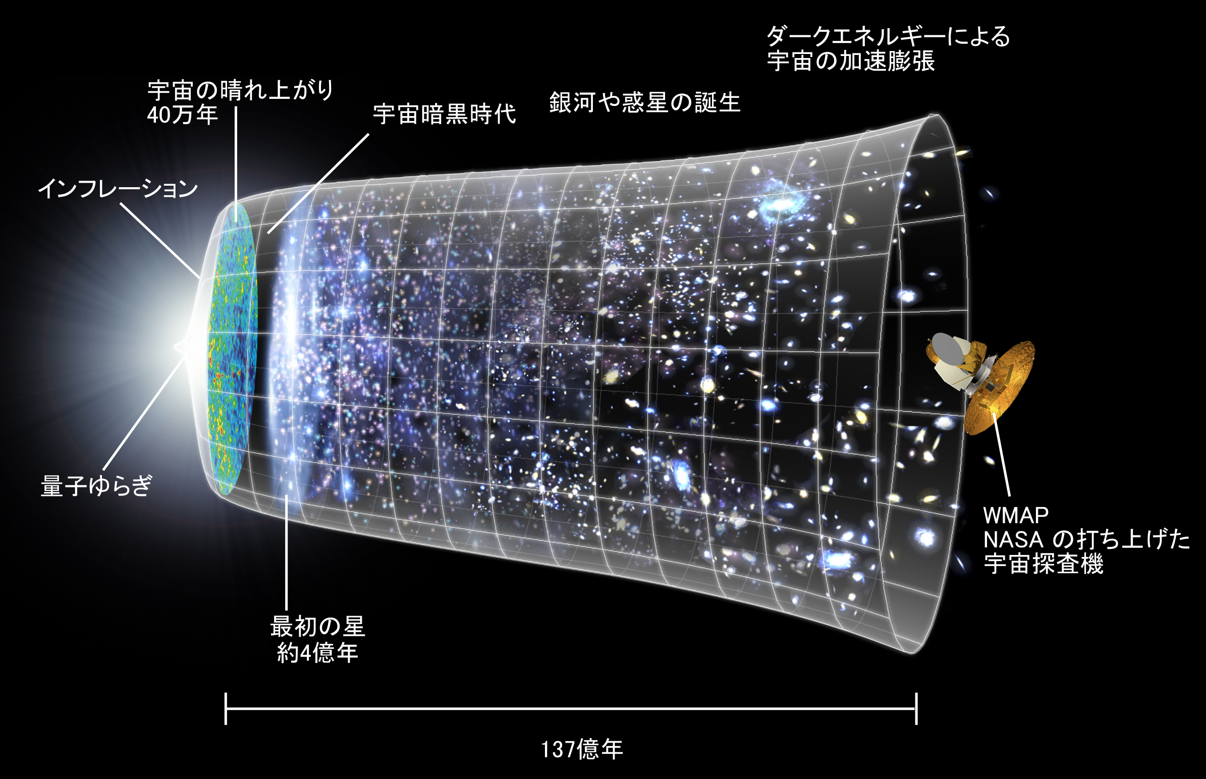 Timeline of universe by NASA WMAP science team.